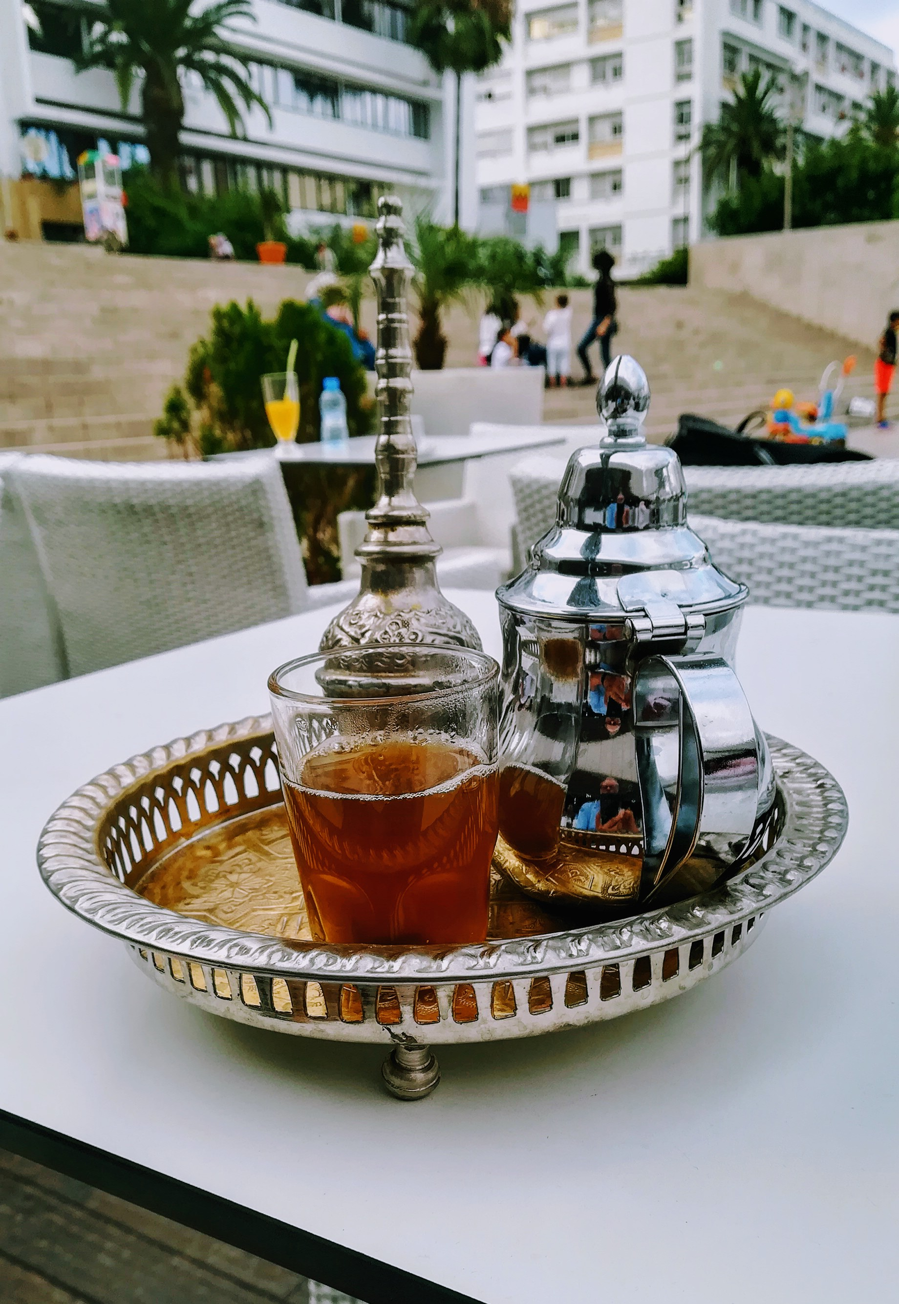 Moroccan mint tea on a traditional round tray, with tea pot and bowl of sugar